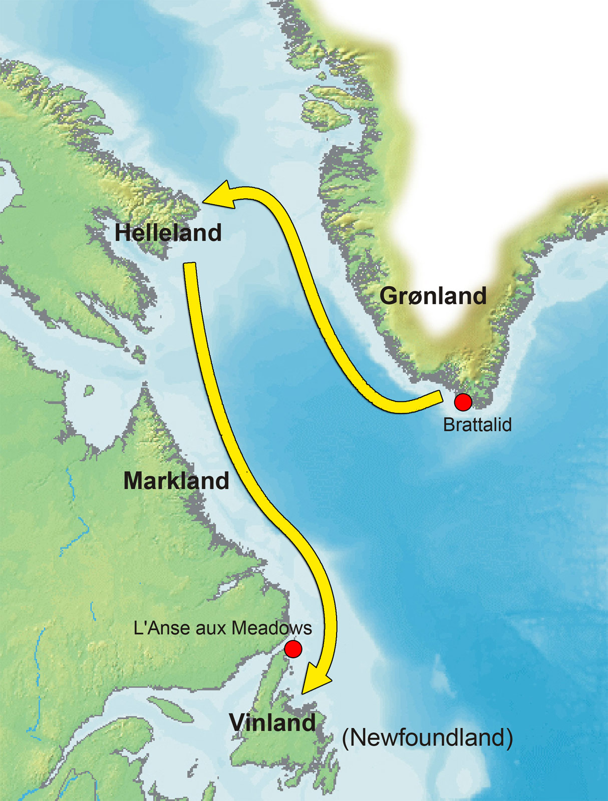 Kart over sjøvegen til Vinland - Norwegian version (Map show the way to Vinland)